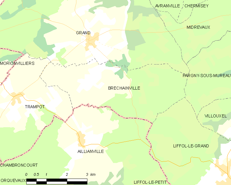 Map of French municipality Brechainville